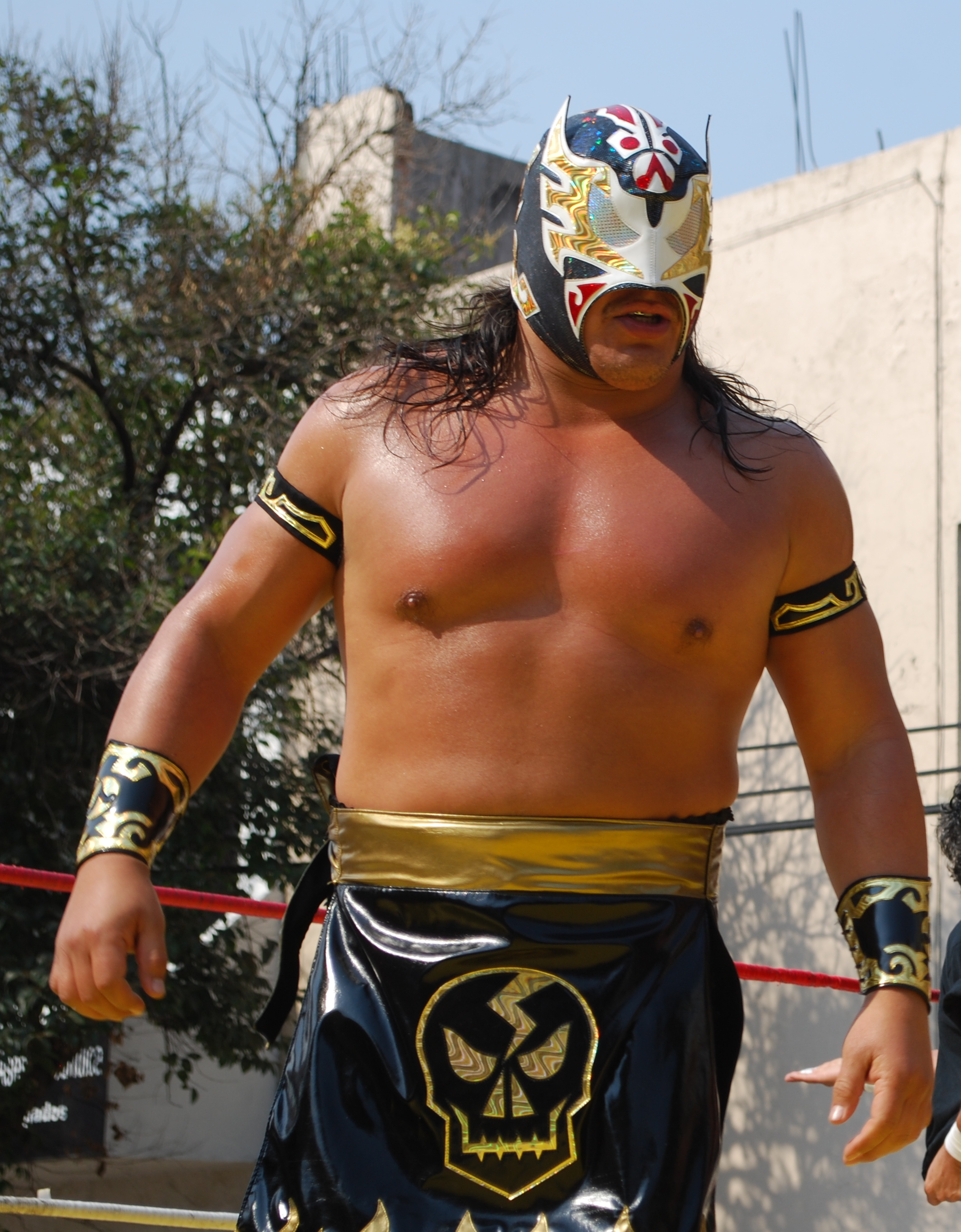 Ultimo Guerrero at the last match at a CMLL lucha libre event part of Festival Día de Reyes Territorial Obrera Doctores in Mexico City